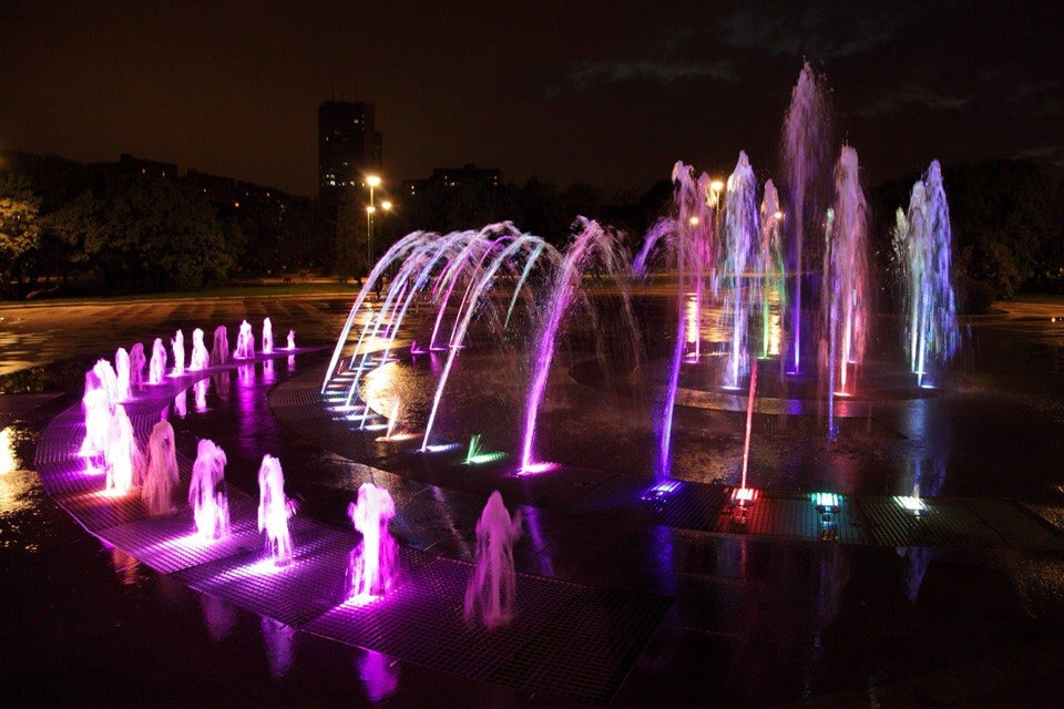 Fountain in Lilac garden, Moscow